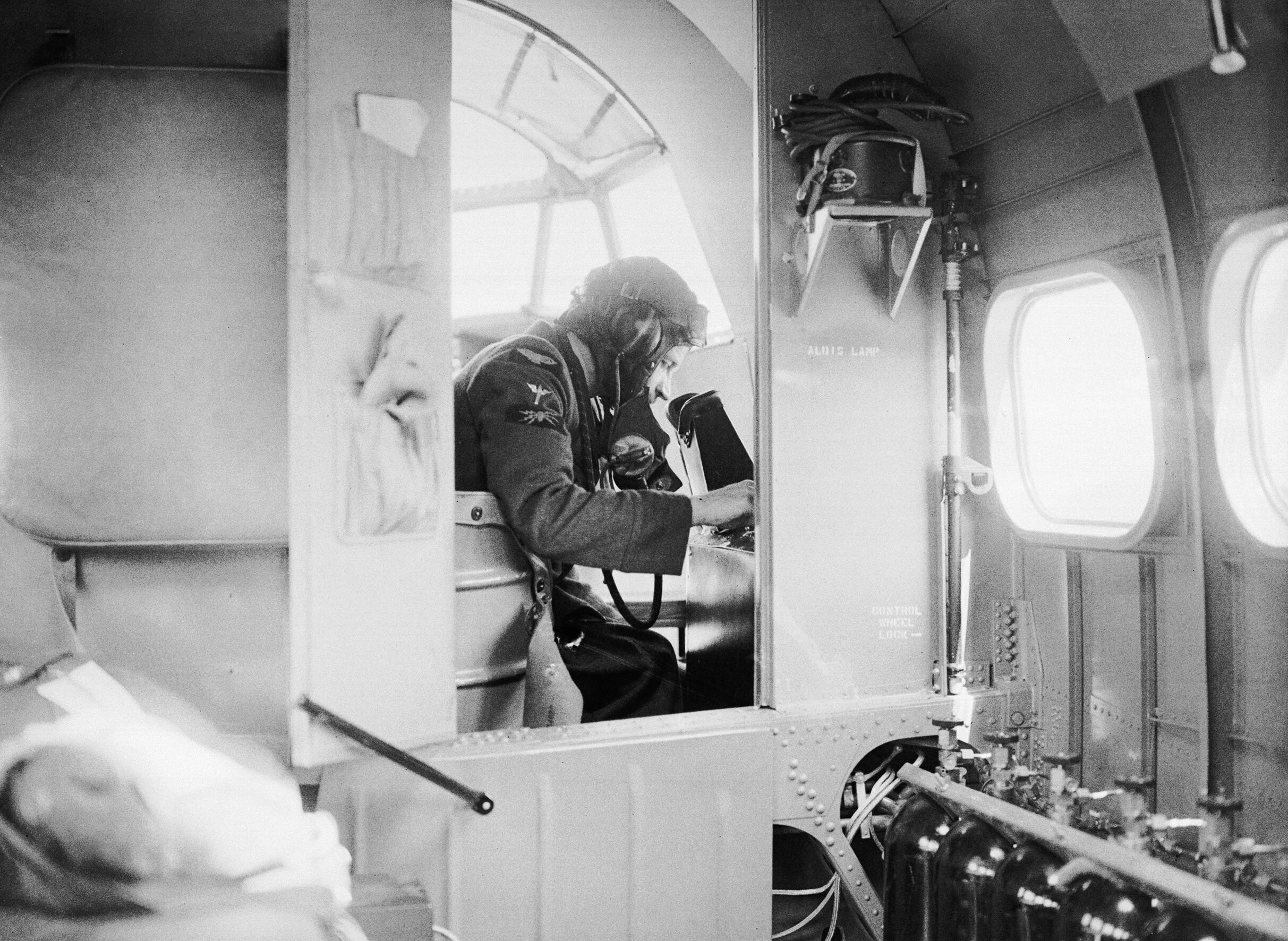 The interior of a Lockheed Hudson Mk I of No. 206 Squadron RAF, June 1940. The interior of a Lockheed Hudson Mk I of No. 206 Squadron RAF, June 1940.